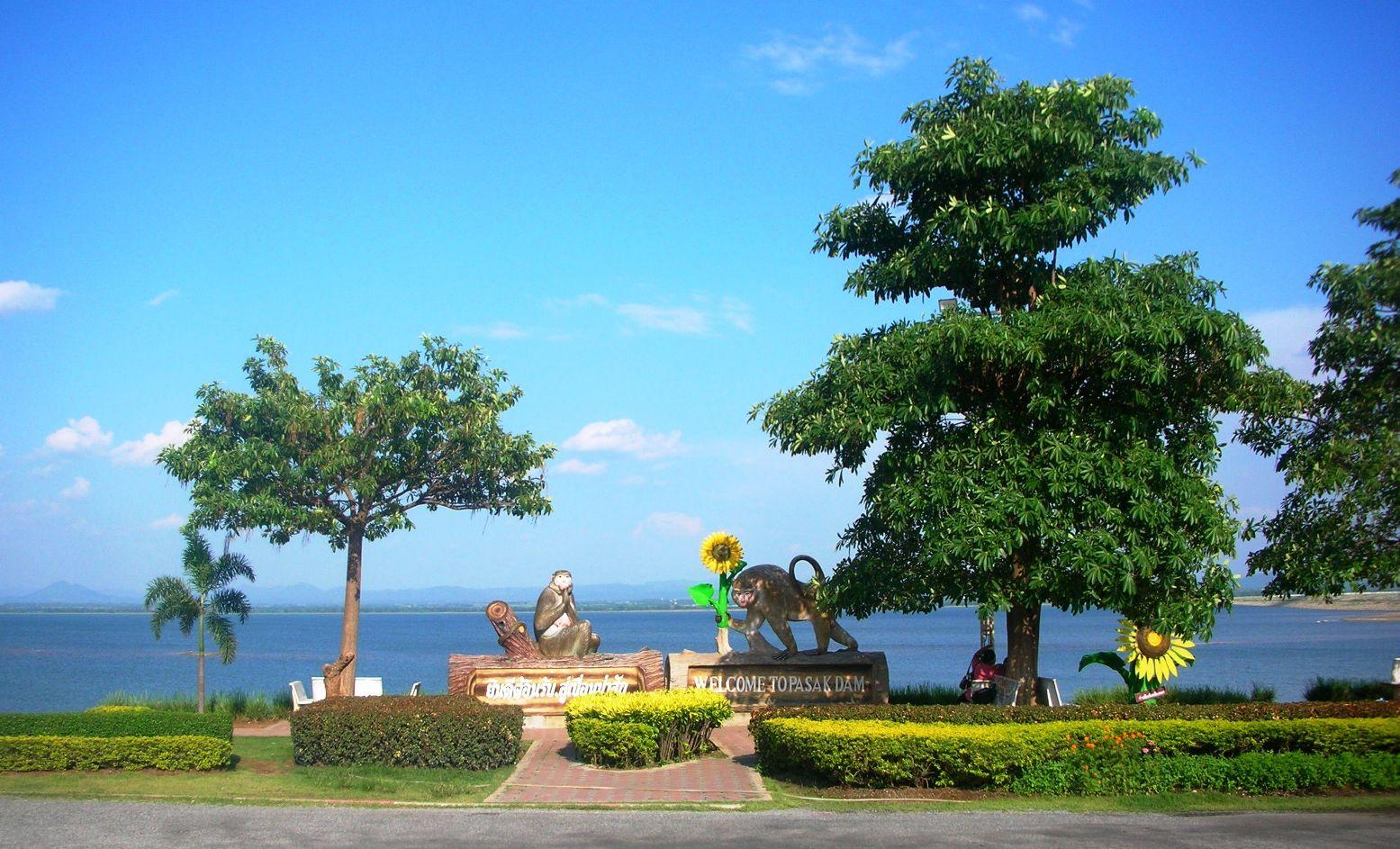 Pa Sak Cholasit Dam east of Lopburi, Thailand